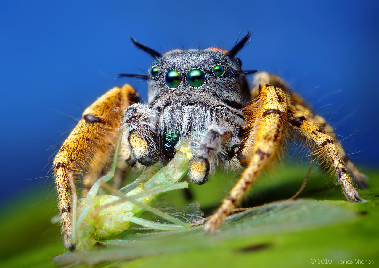 Adult male Phidippus mystaceus feeding on a Chrysopid. There seems to be a fair amount of variation in the appearance of this species and the three P. mystaceus I've had the chance of photographing in this area of Oklahoma seem to be markedly different than other P. mystaceus I have seen in photographs (like this amazing male photographed by JH Carmichael in Texas for example). The image above is a slight crop from a single image taken with my 50mm at f/16 reversed on a set of extension tubes.